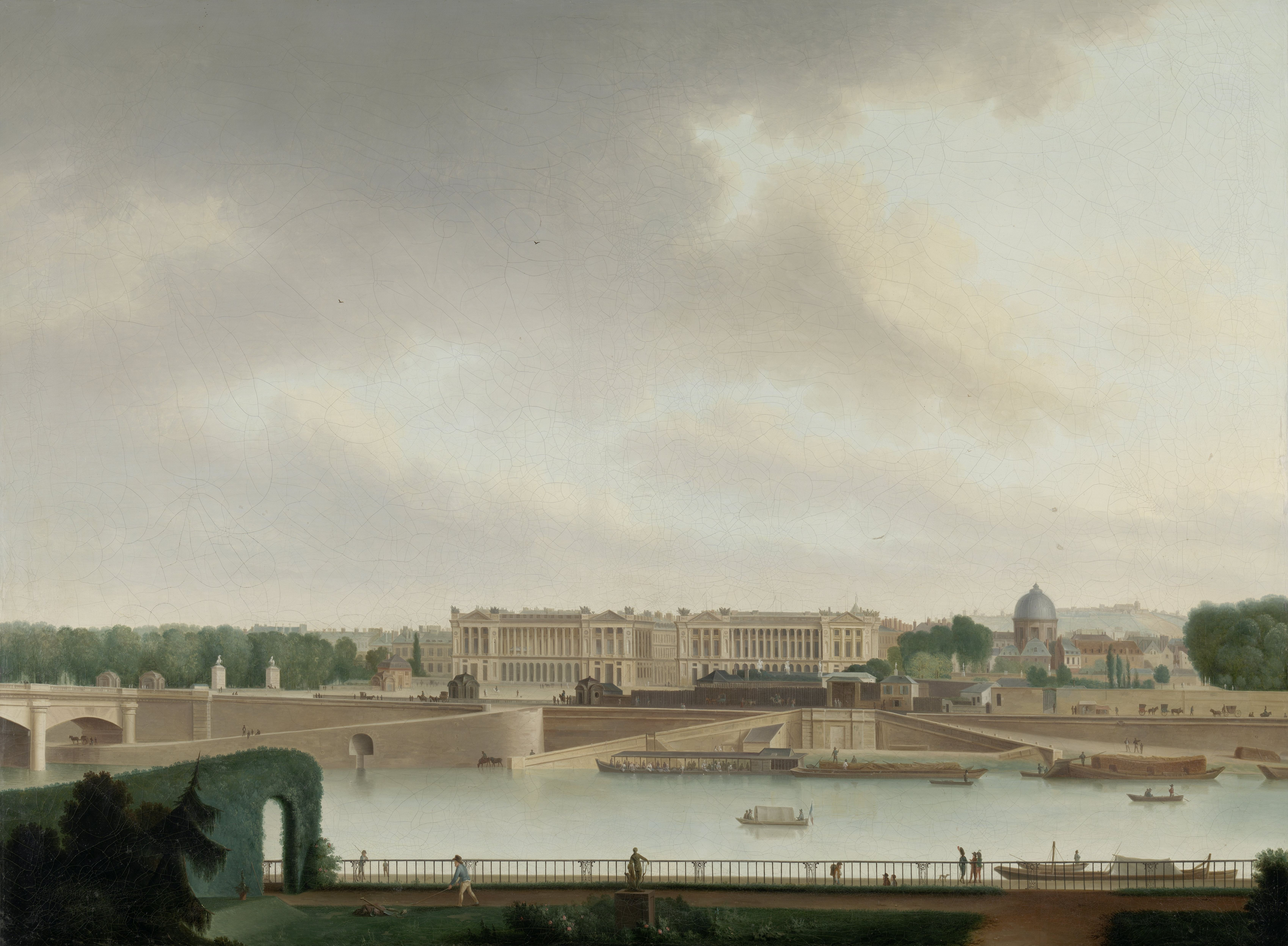 Rutger Jan Schimmelpenninck, the Dutch ambassador in Paris, commissioned Knip to make a series of paint-ings of the Batavian embassy, the Hôtel de Beauharnais. This is the view from the embassy, looking at the Palais des Tuileries. An optical telegraph is visible at right atop a gabled roof, while another one can be seen in the far right distance, on Montmartre. Such enabled contact between Paris and the Netherlands.